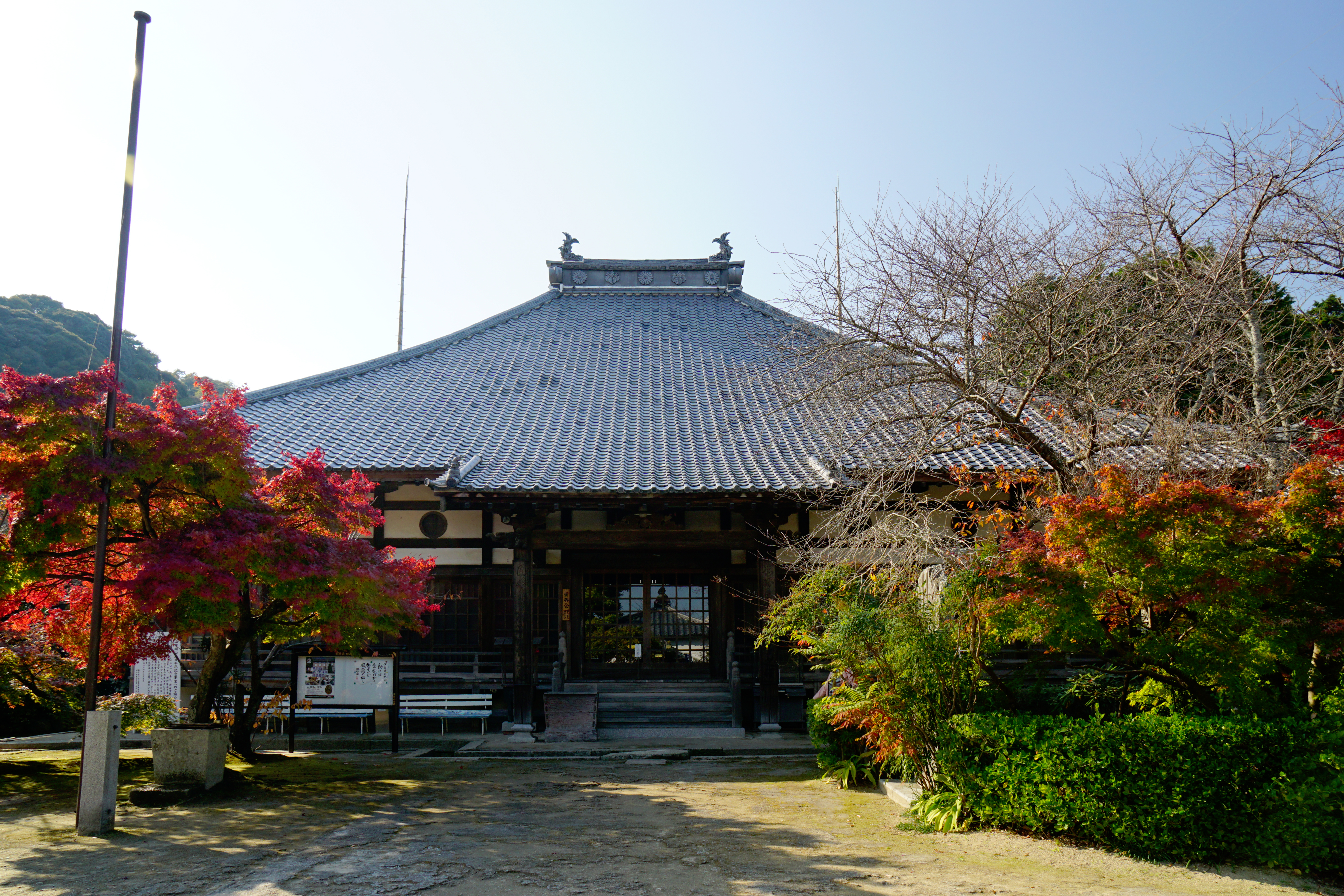 Kōzan-ji in Shimonoseki, Yamaguchi prefecture, Japan.